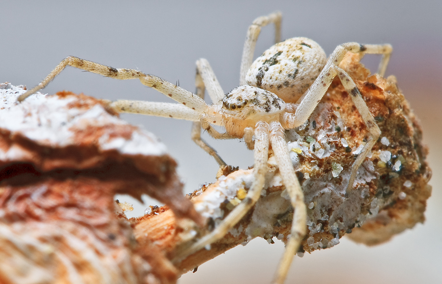 Another common species in the IB dune vegetation, where students & I collected both adult males and females